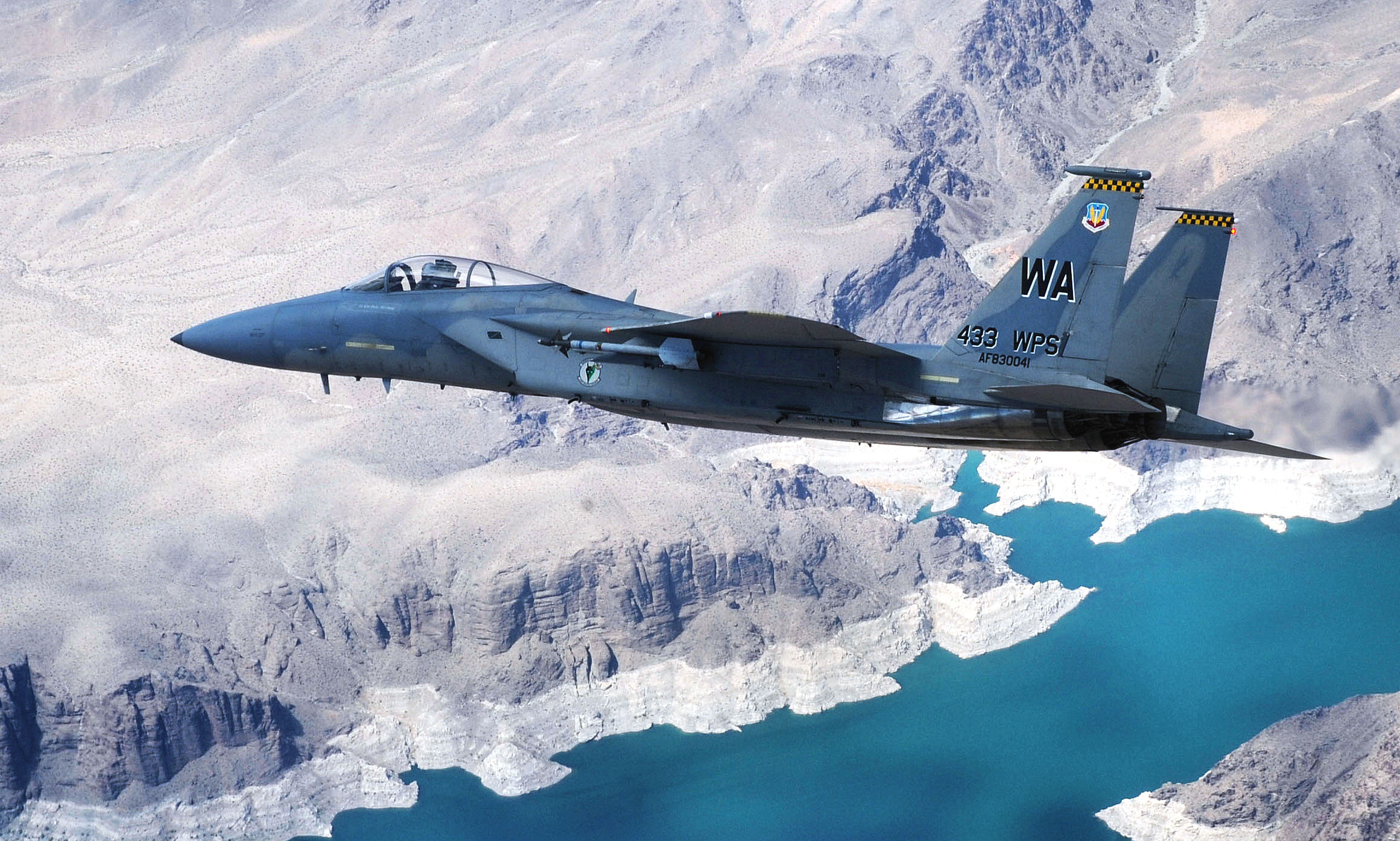 433d Weapons Squadron - McDonnell Douglas F-15C-36-MC Eagle 83-0041